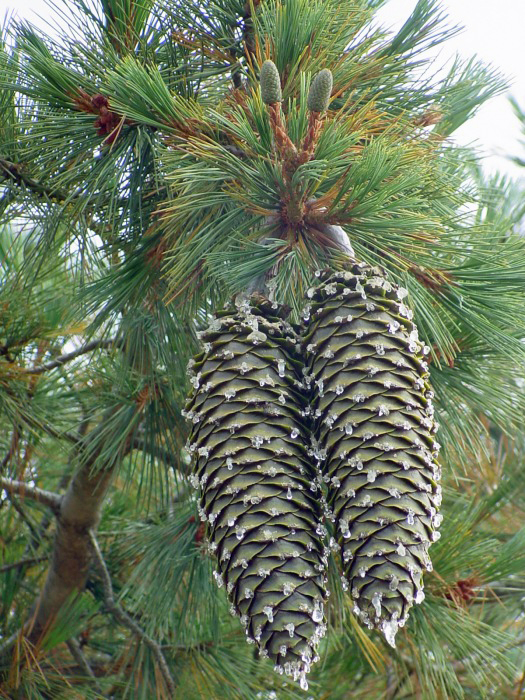 Pinus lambertiana immature and mature seed cones